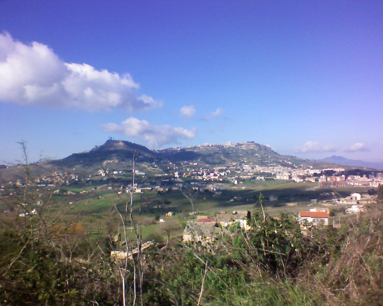 Panorama of Enna seen from south-Panoramica di Enna vista da sud